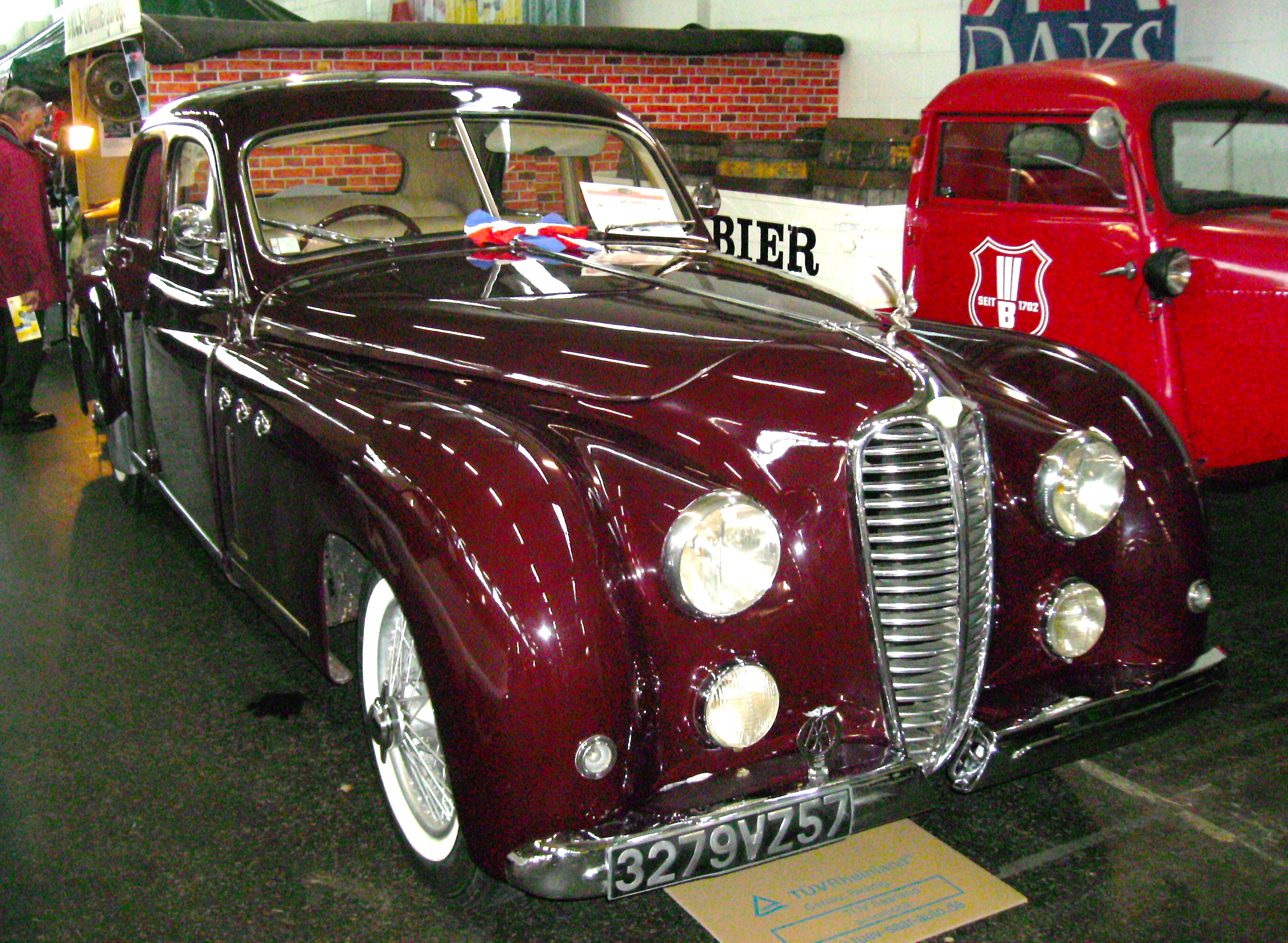 Delahaye 175M, four-door saloon